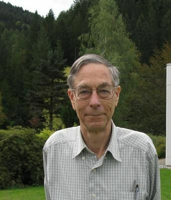 Marc Rieffel,Oberwolfach 2011